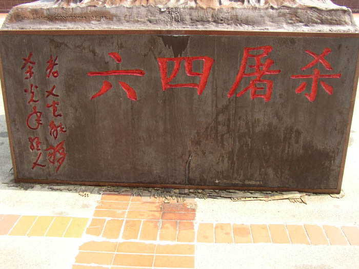 Originally from zh.wikipedia; description page is/was here.